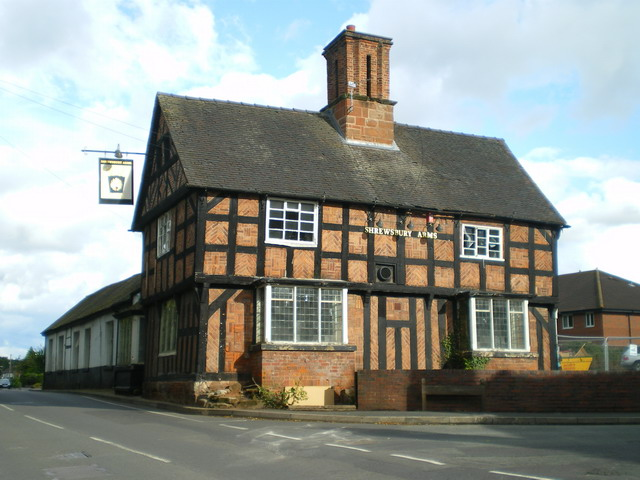 The Shrewsbury Arms, Albrighton A long-established pub on the old A41 road through Albrighton; there appear to be some refurbishments taking olace in mid 2009, and it's to be hoped the place will re-open afterwards.